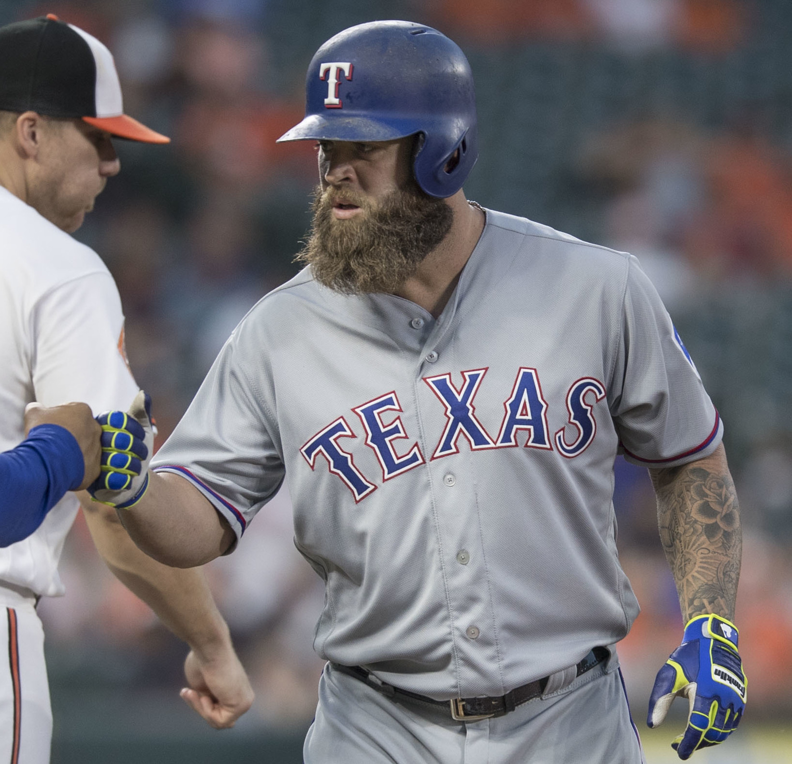 Rangers at Orioles 7/18/17